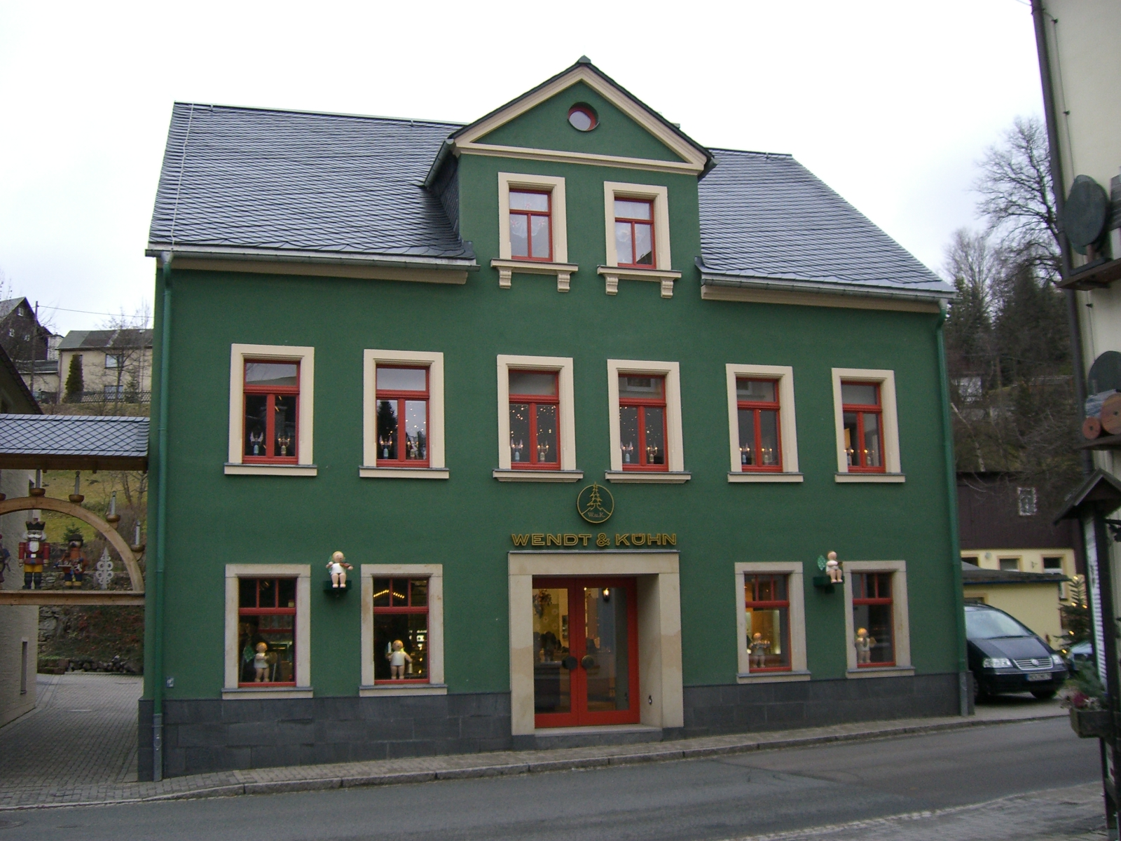 Store of Wendt & Kühn in Seiffen, Germany